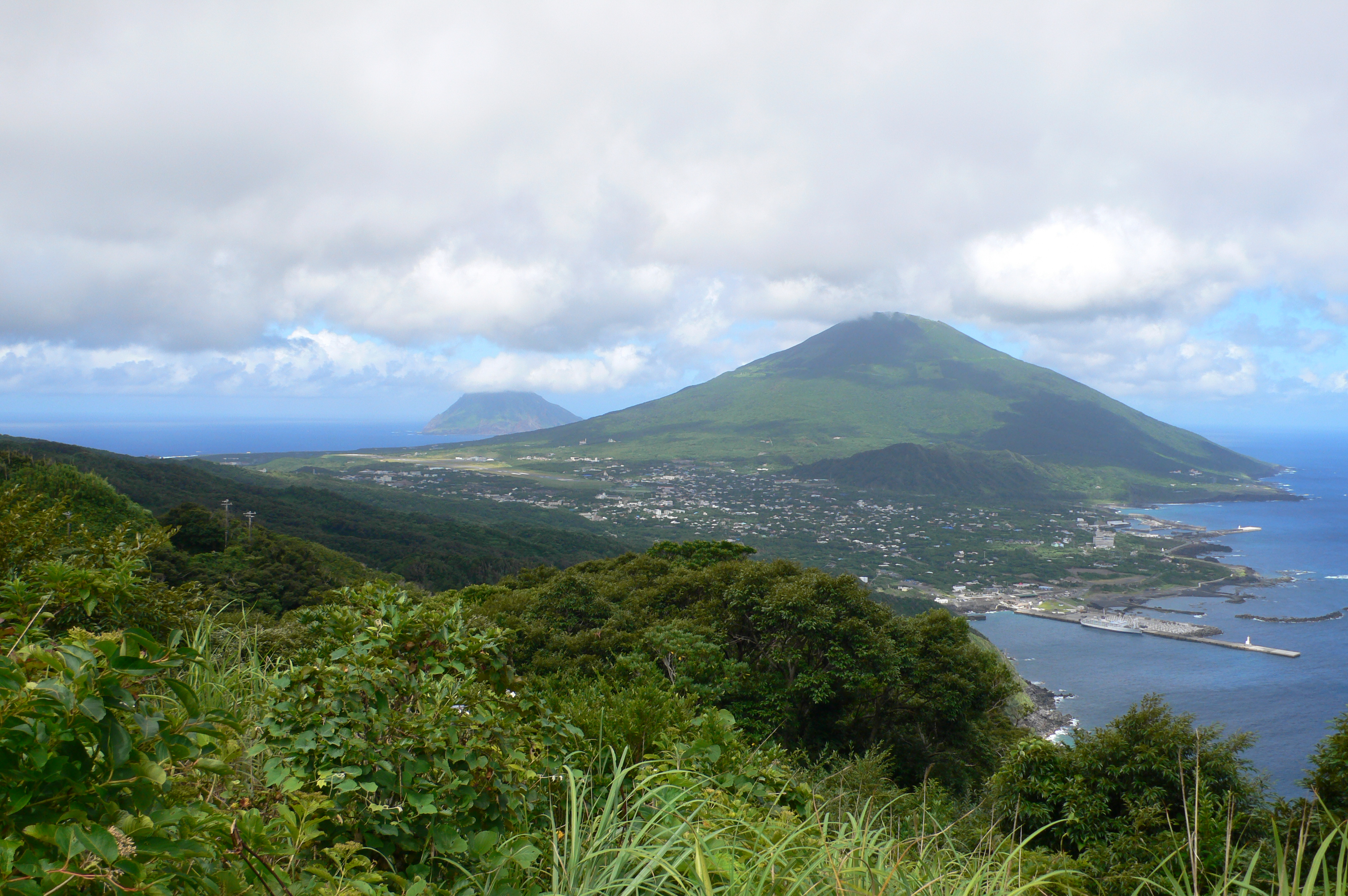 Overlooking the northern half of the Hachijōjima island.